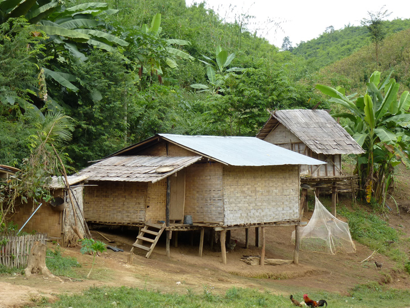 Ban Huay Hao, a Khmu village, Bokeo Province, Laos.